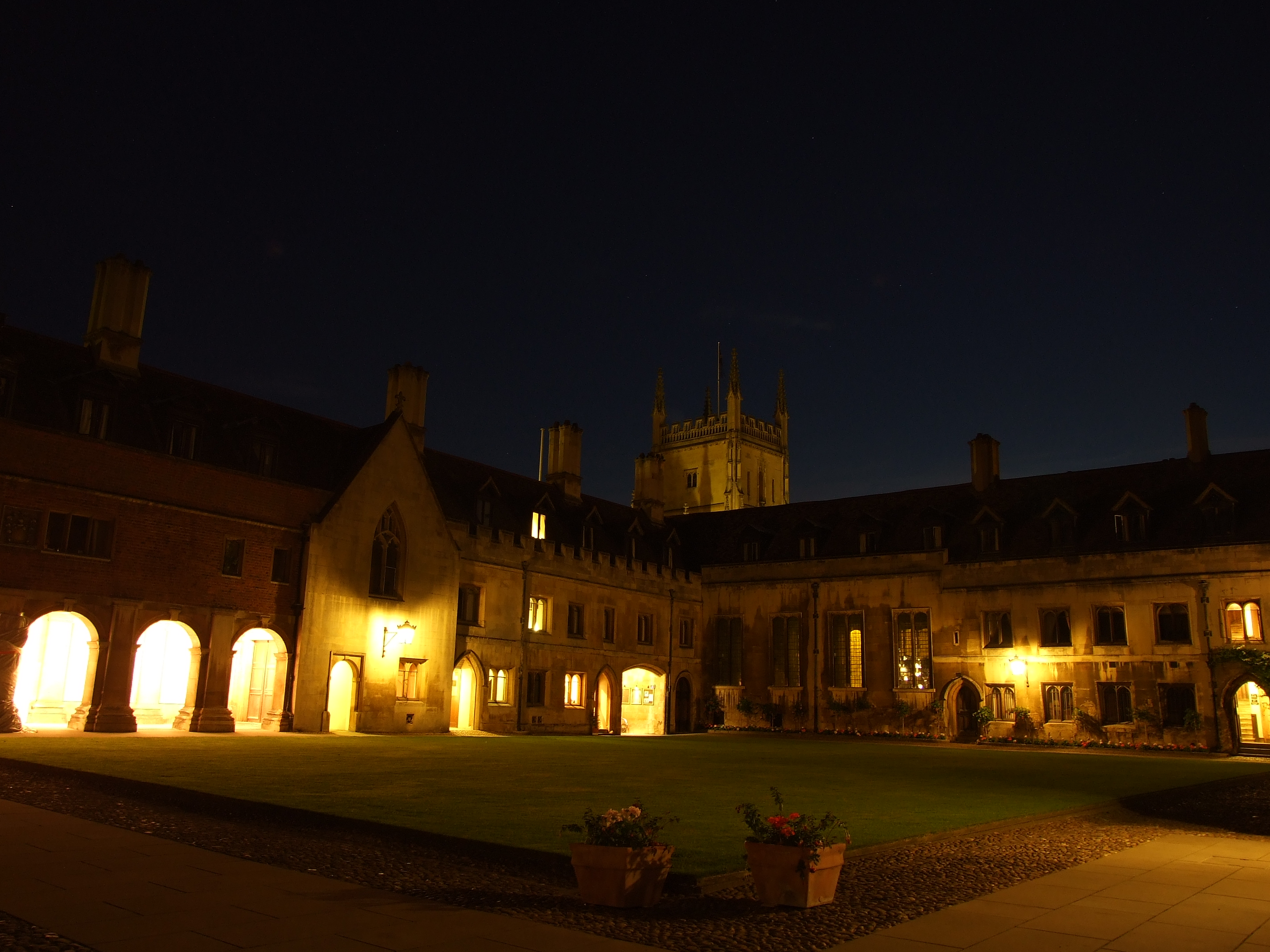 Pembroke College at night.